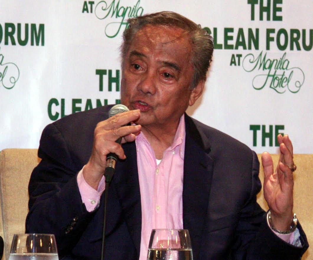 Former Senator Heherson Alvarez speaking at a climate forum at the Manila Hotel.